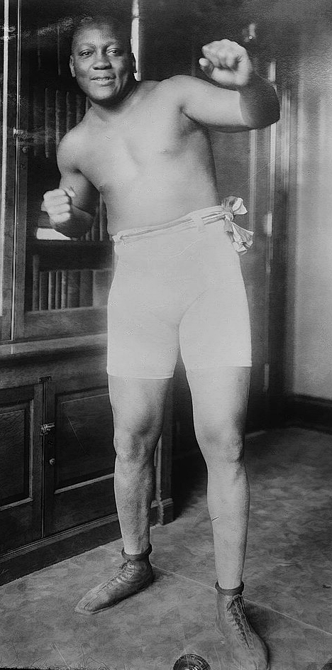 Jack Johnson, American boxer